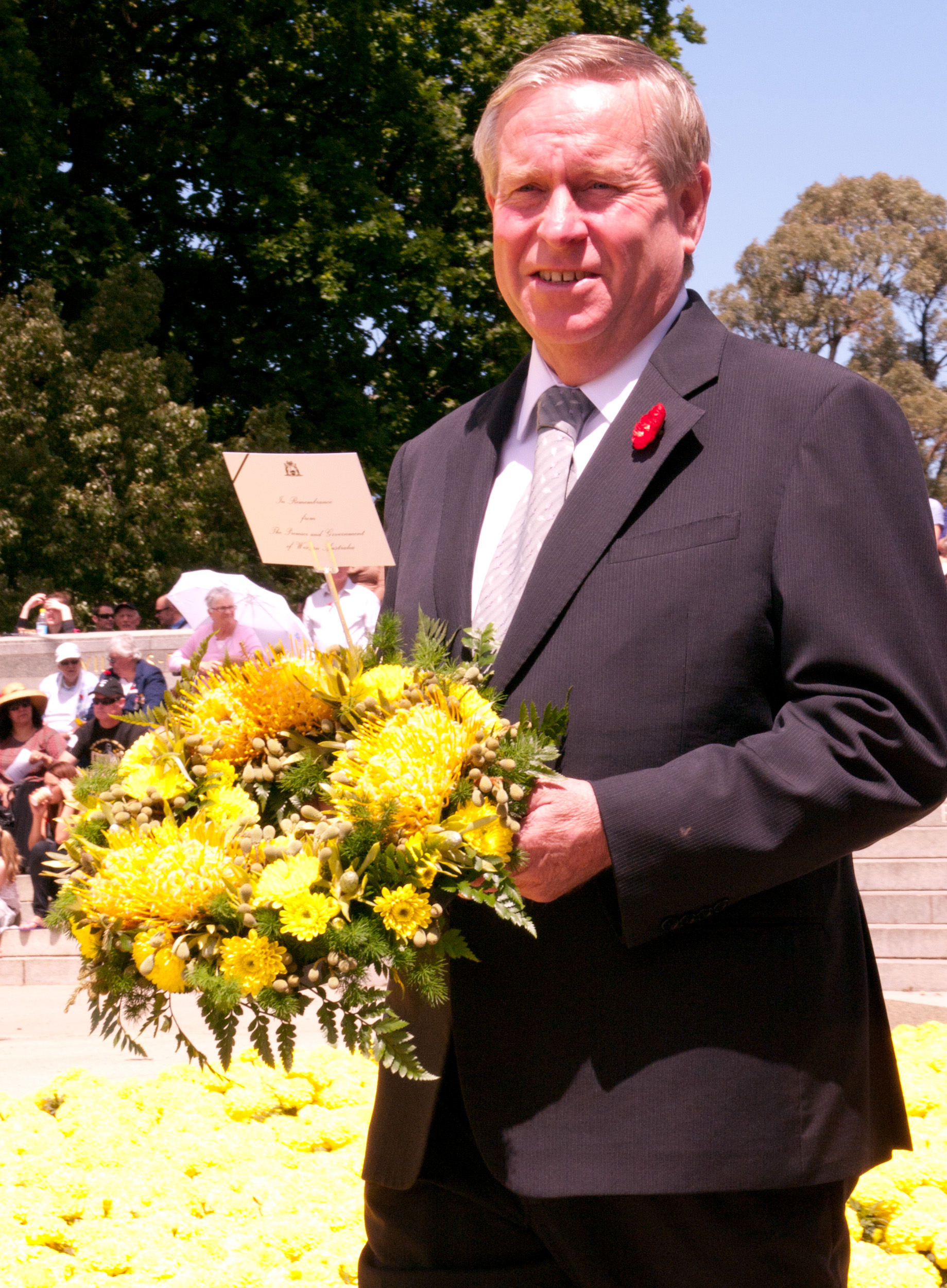 Western Australian Premier, Colin Barnett. Remembrance Day ceremony Kings Park, Western Australia November 11 2012